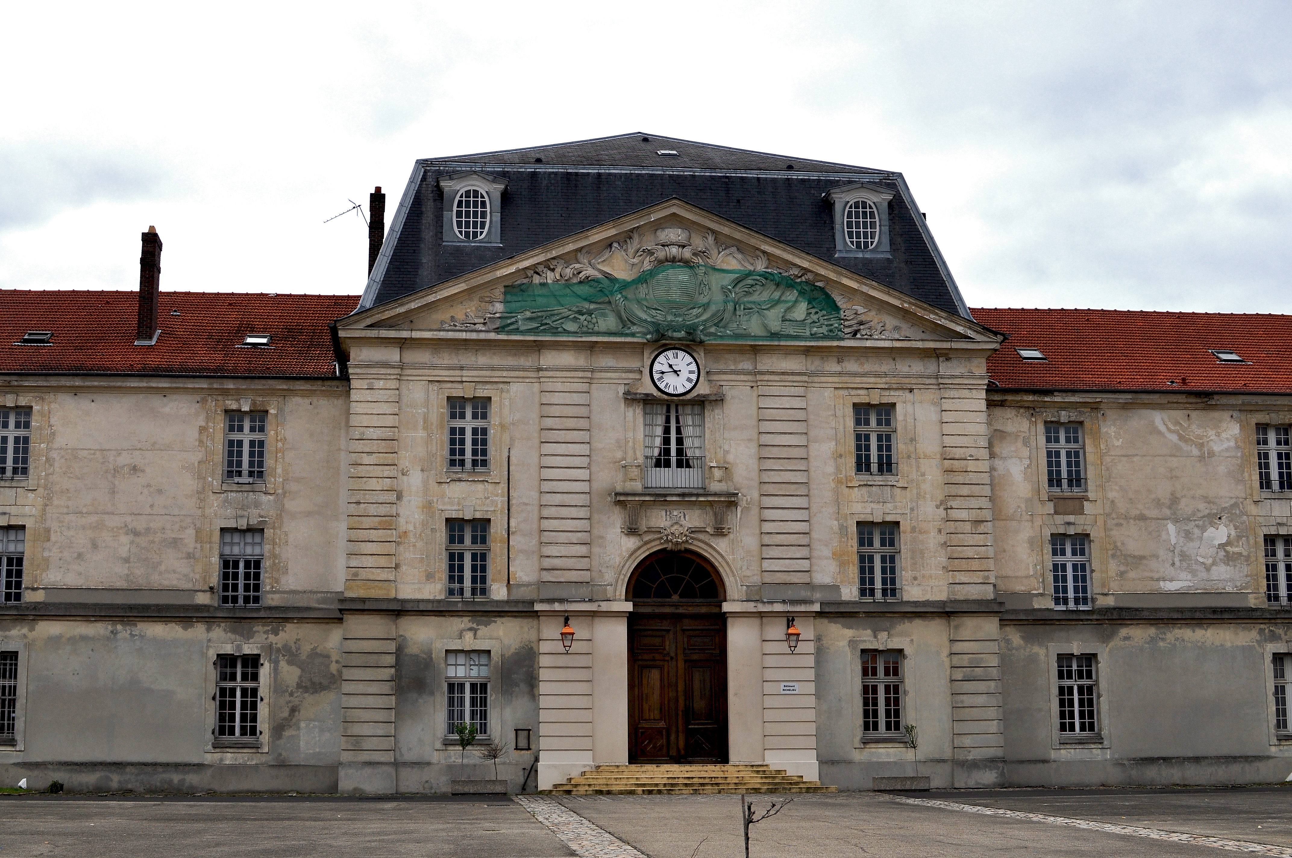 Barracks Guynemer, former barracks of the Swiss guards in Rueil-Malmaison, department of Hauts-de-Seine in France. Richelieu building.